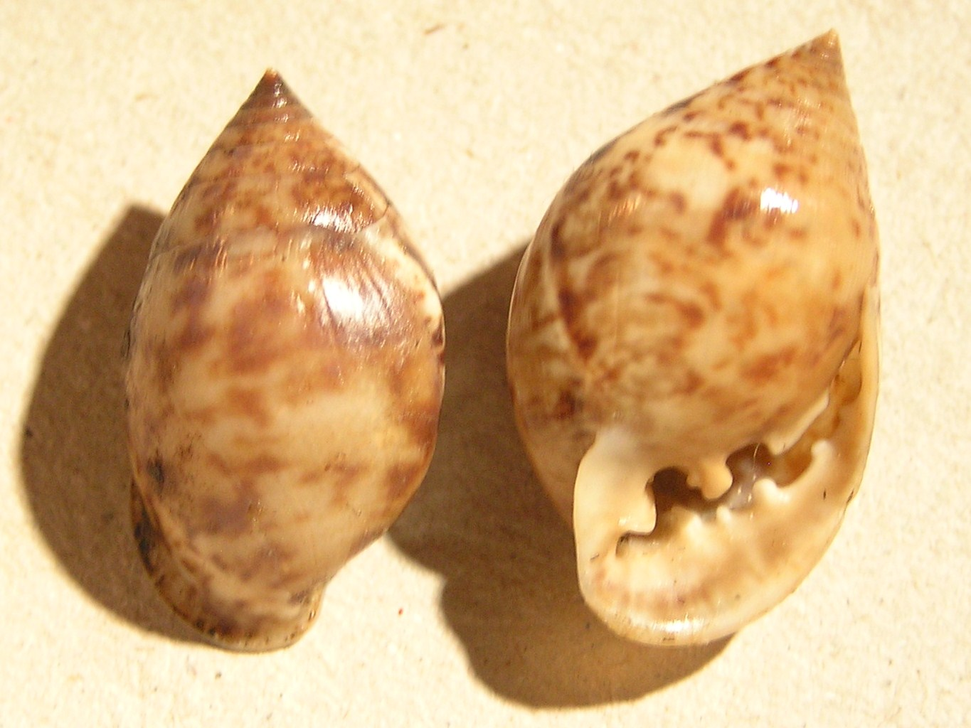 Photo of shells of Pythia scarabaeus.